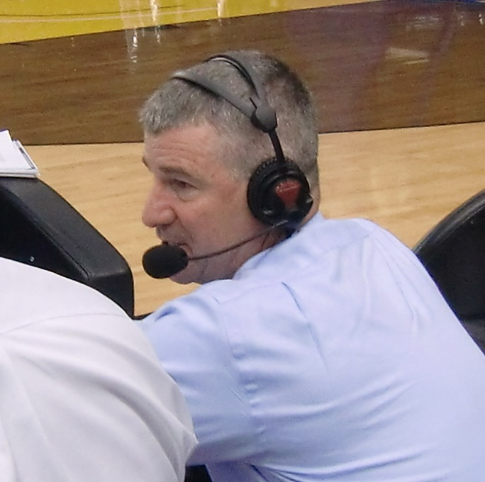 Boise State University men's basketball coach Leon Rice conducts a postgame interview with the Bronco Radio Network at the San Jose State University Event Center Arena, following Boise State's 68-63 loss to San Jose State on March 5, 2016.